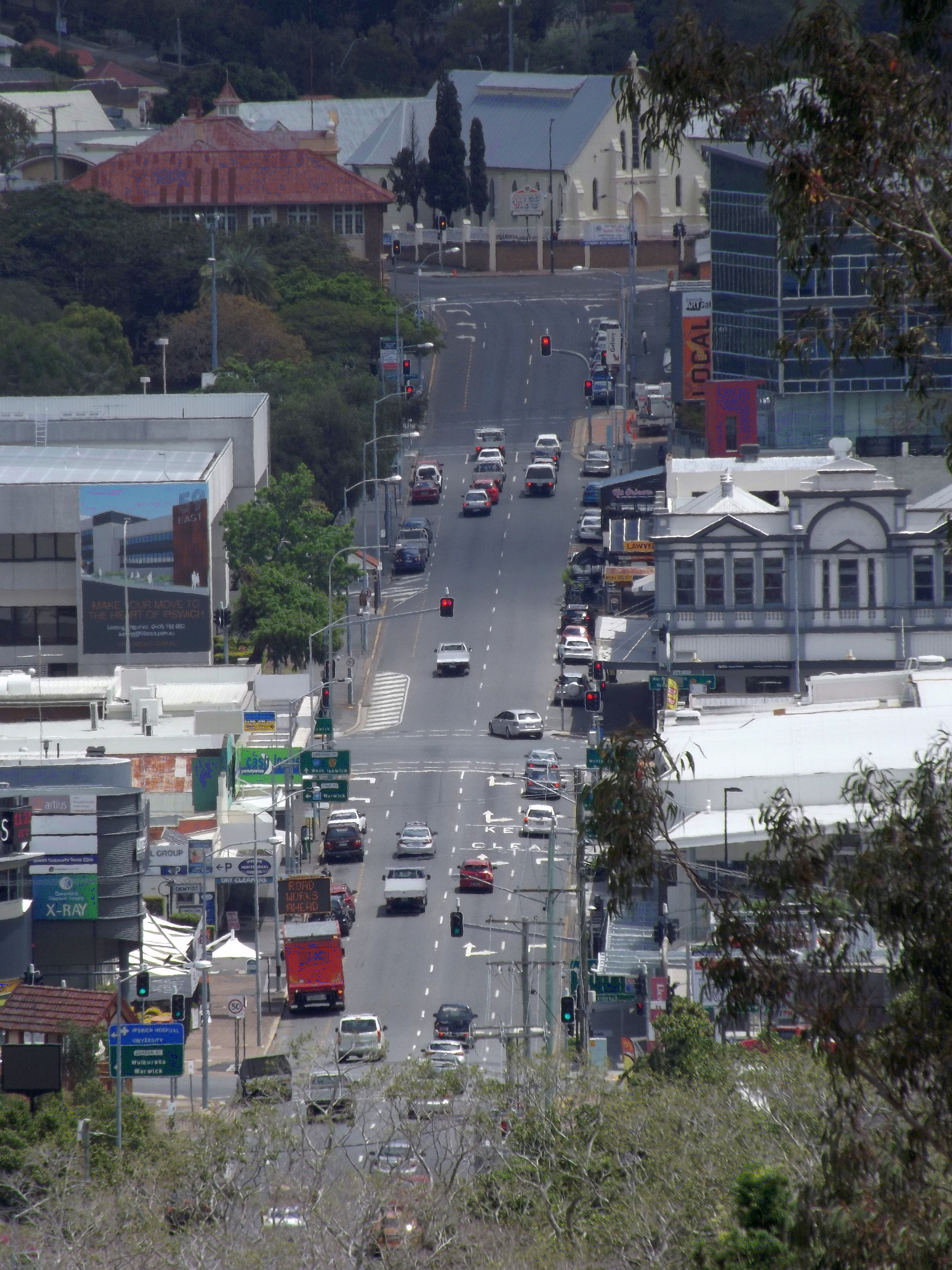 Photo of Limestone Street in Ipswich, Queensland, Australia taken from Limestone Hill Lookout in Queens Park.